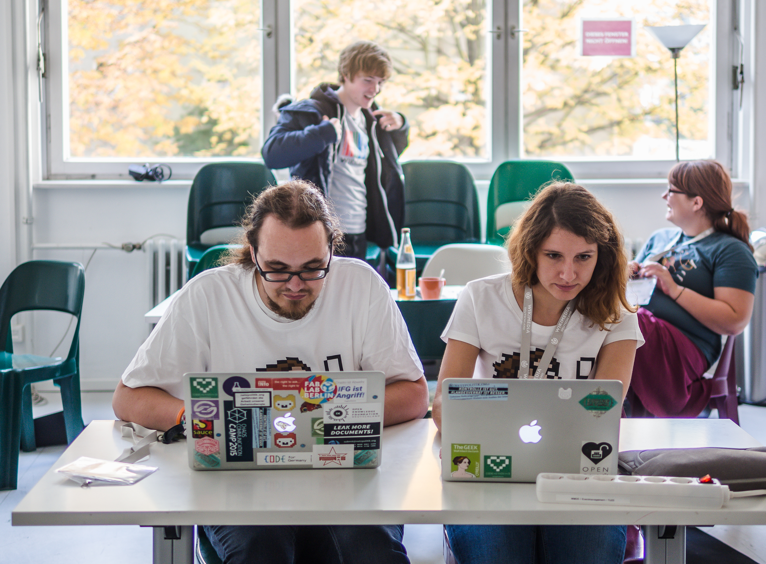 Free Knowledge Game Jammers